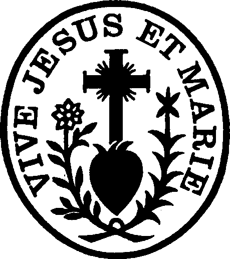 Emblem of the Eudist Order (Congregation of Jesus and Mary), from a book of the late 18th century